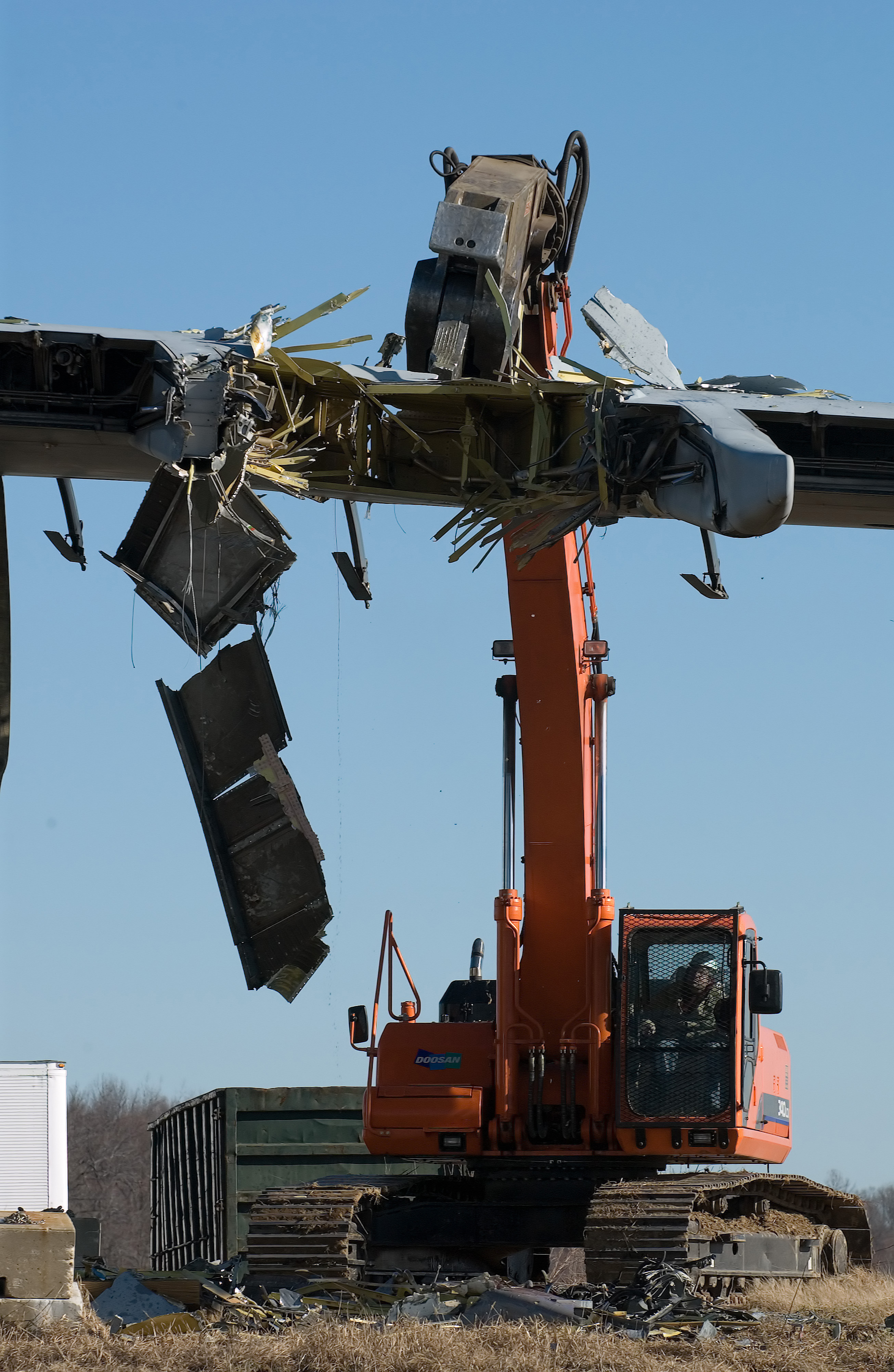 A track material handler machine removes the wing of a destroyed aircraft at the end of runway 32 in Dover Air Force Base, Del., Jan. 17, 2007. The aircraft number C-5B 84-0059 crashed on April 3, 2006.